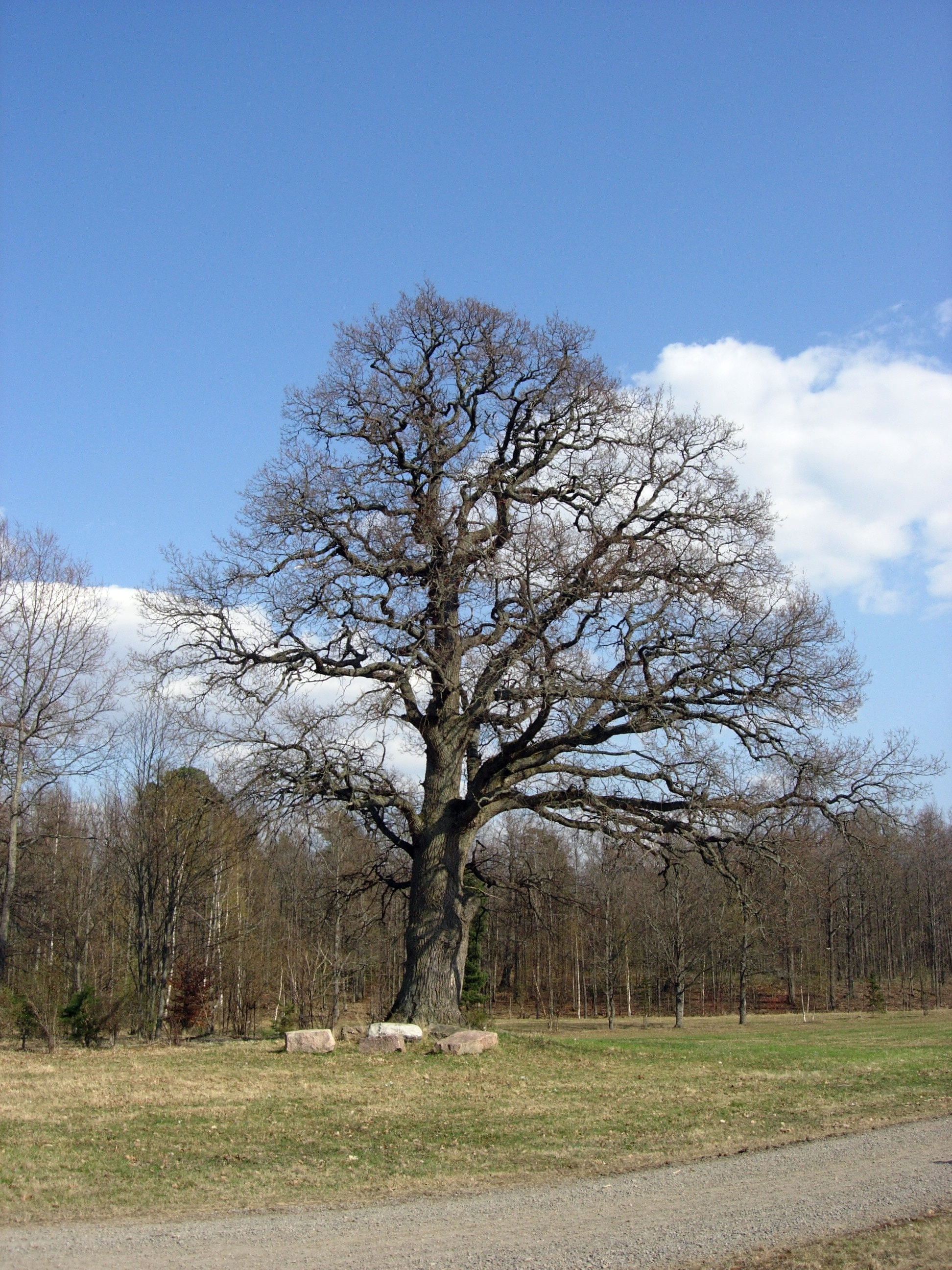 An old Quercus robur, oak, on the Ruissalo island in Turku, Finland